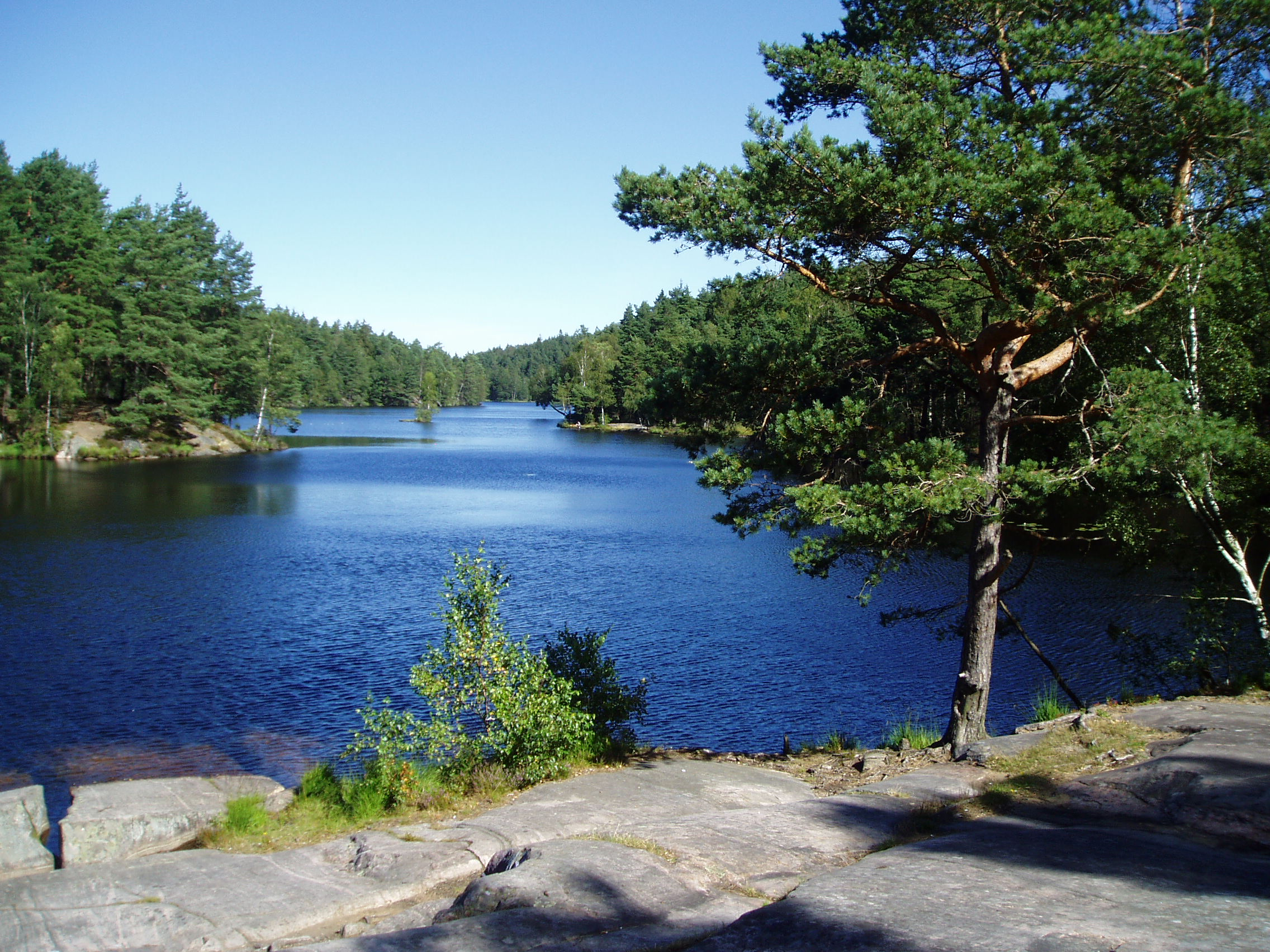 Stora Stentjärnen, lake in Västergötland